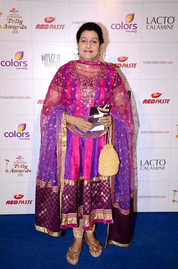 colors indian telly awards